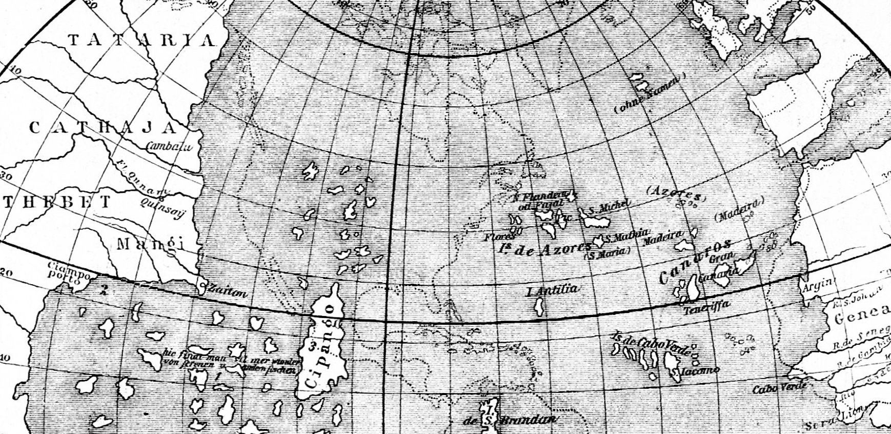 no caption